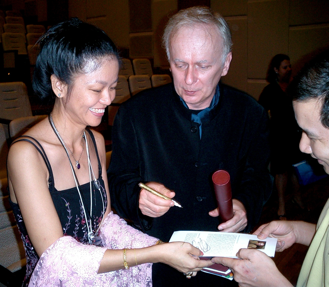 Janusz Olejniczak (b. 1952), famous Polish pianist, signing autographs after concert in Kuala Lumpur, Malaysia.